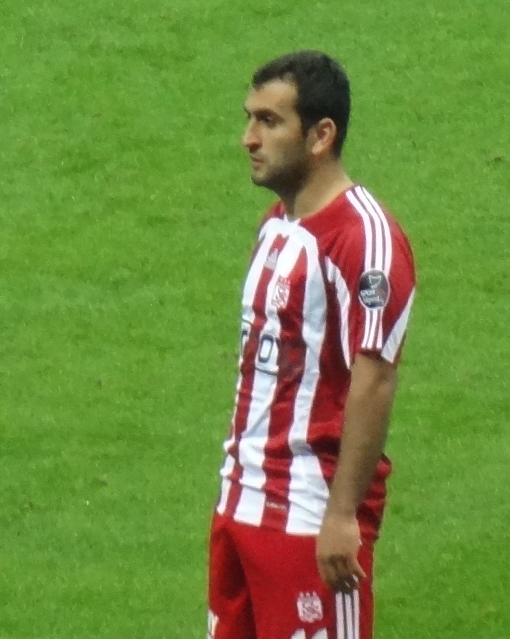 erman kılıç against gs